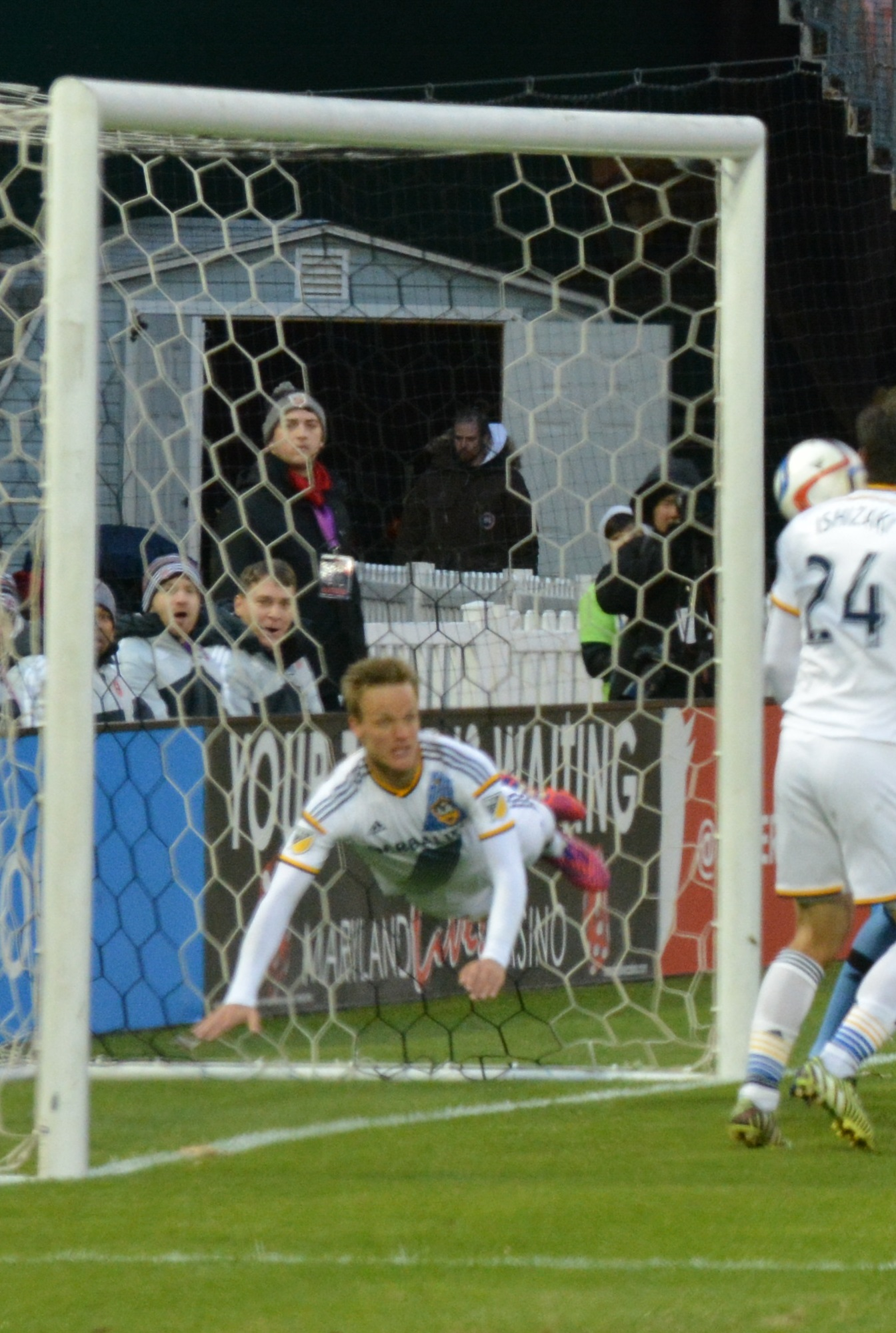 Mika Vayrynen dives to head a ball off the line for the LA Galaxy